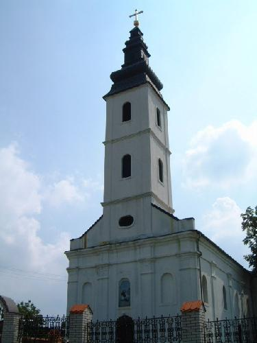 Divos_orthodox.jpg